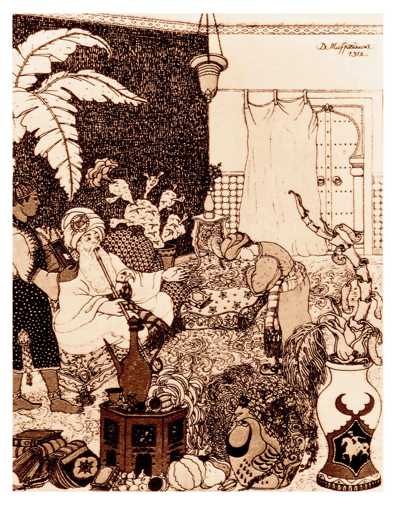 D. Mitrohin. Illustration for W. Hauf's The Life of Almansore. 1912